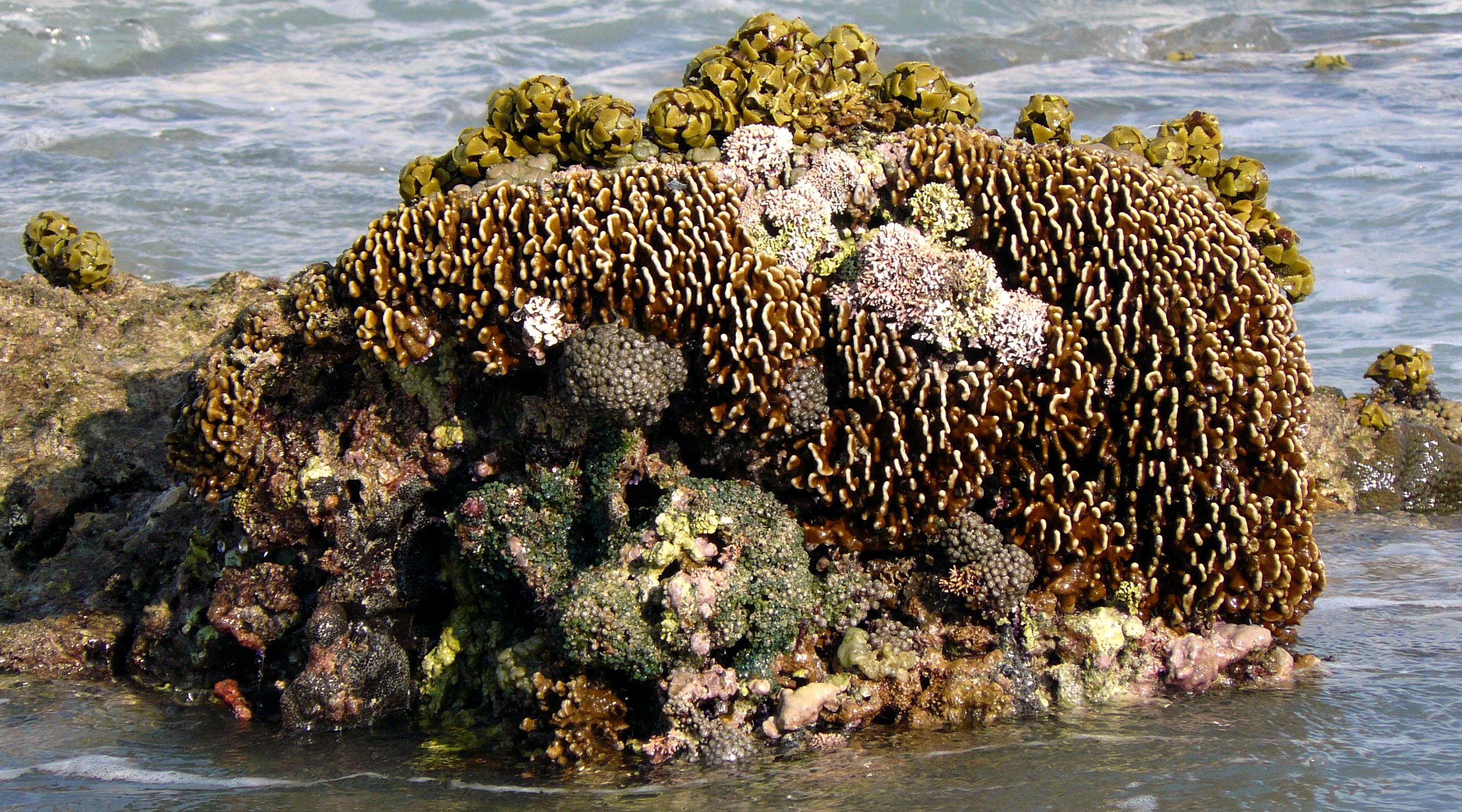 Exposed Coral Reef, Gili Meno, Indonesia